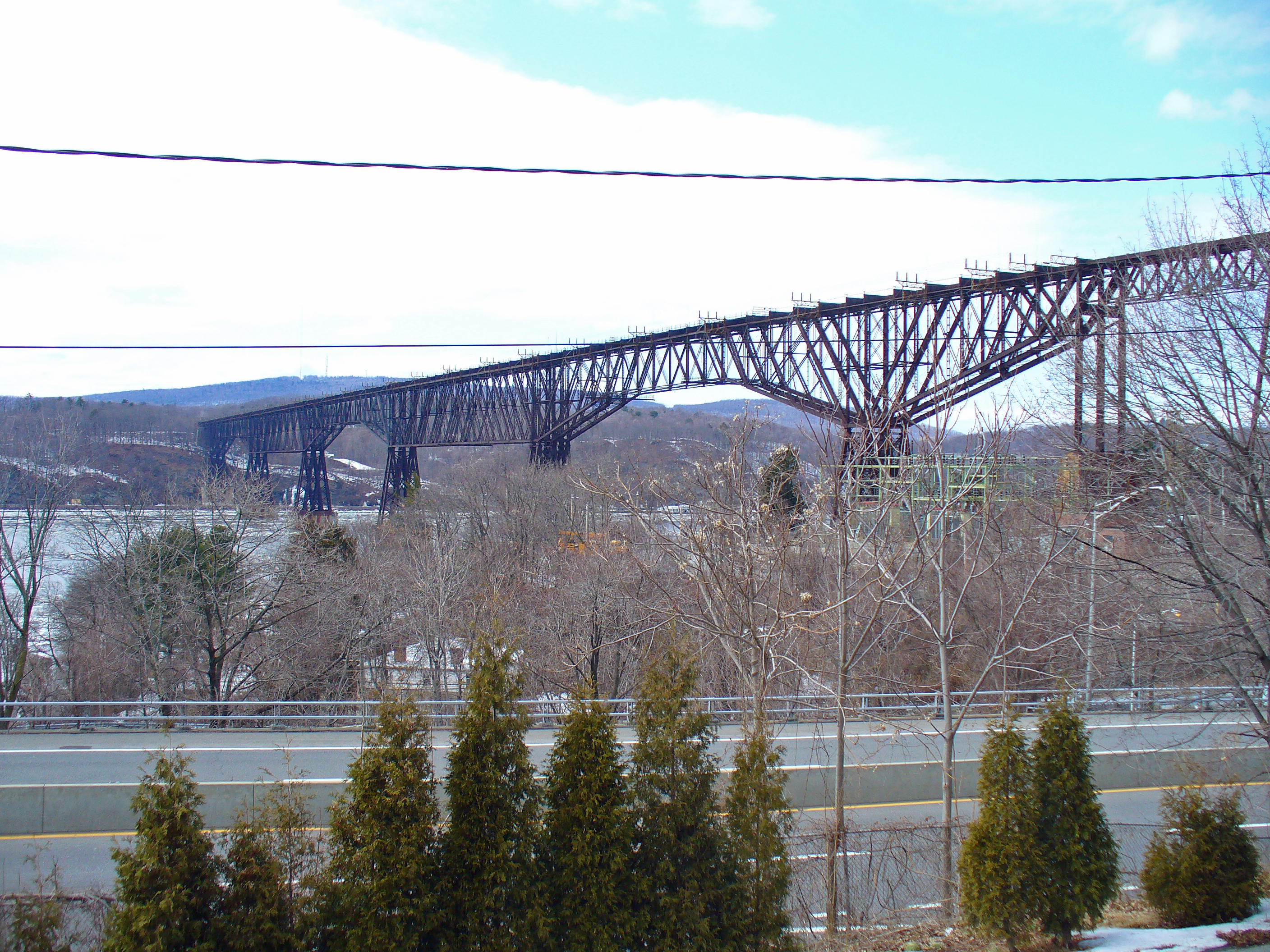 Poughkeepsie Bridge by David Shankbone